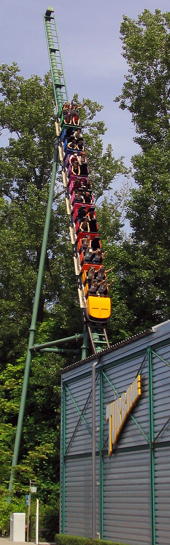 Psyké Underground, Walibi Belgium, Belgium.